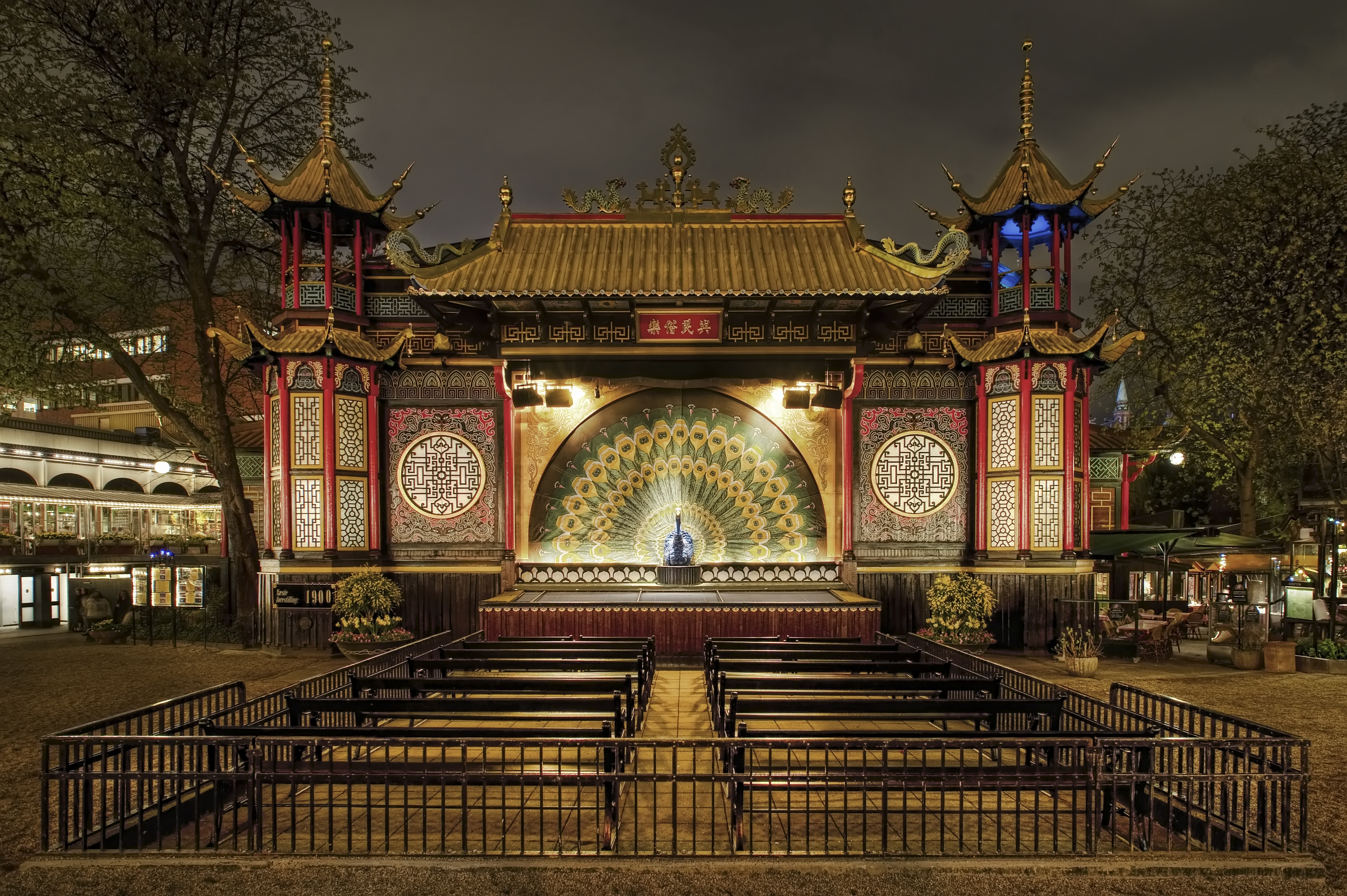 Pantomime Theatre in Tivoli